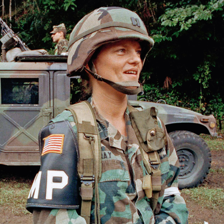 Linda L. Bray, commander of the 988th Military Police Company in Panama, 1990, on duty and in uniform.